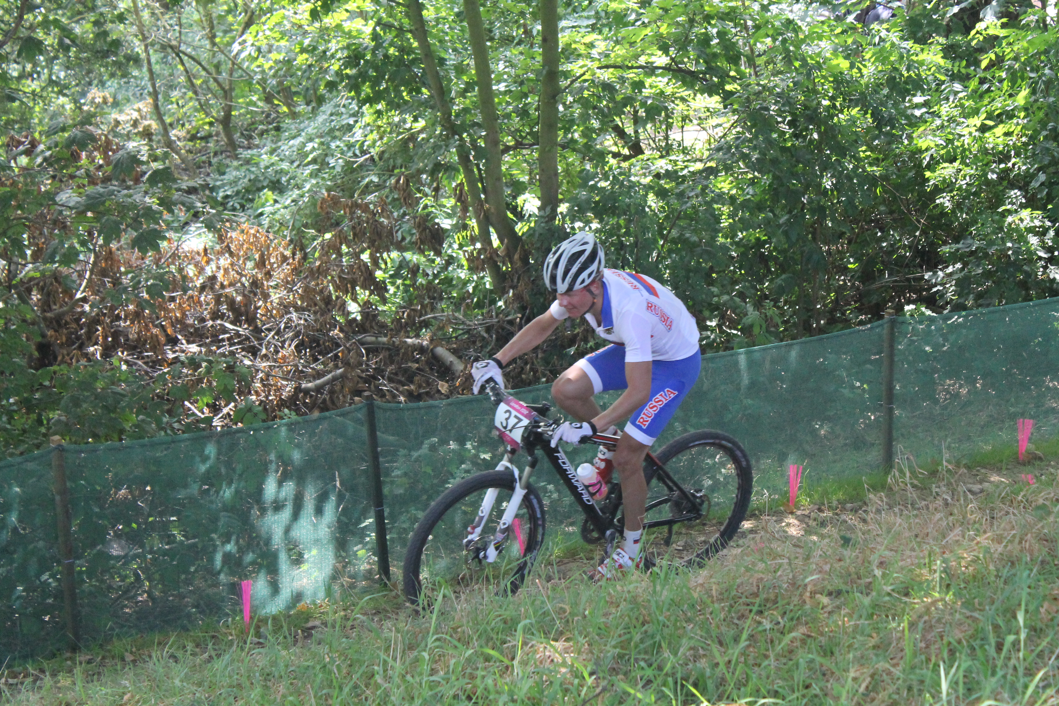 Cycling at the 2012 Summer Olympics – Men's cross-country Evgeniy Pechenin (Евгений Печенин) (37) (RUS) IMG_4168